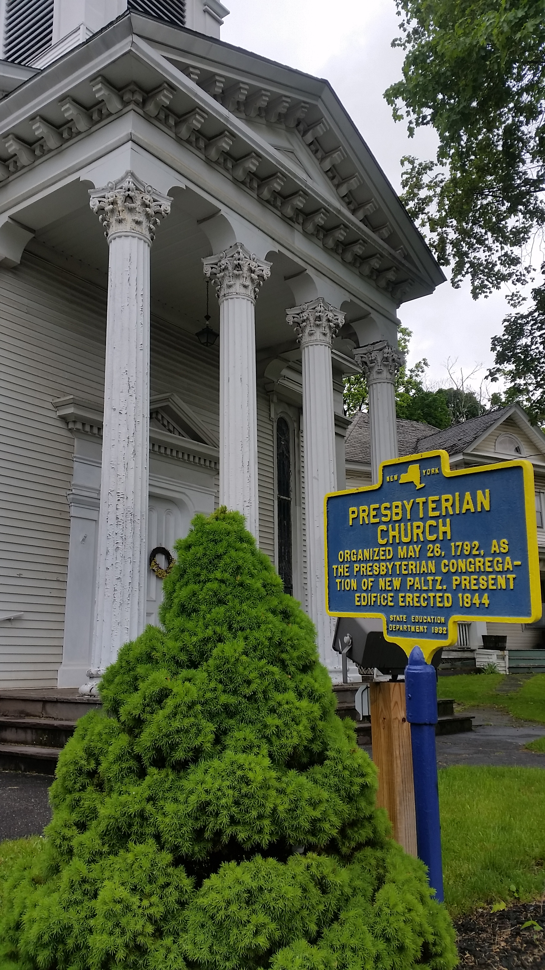 NY State historical marker for Presbyterian Church in Lloyd NY